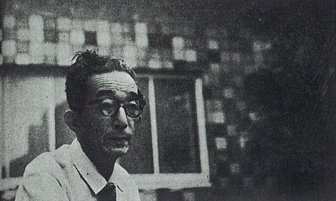 Shikanosuke OKA (1898-1978), Japanese painter